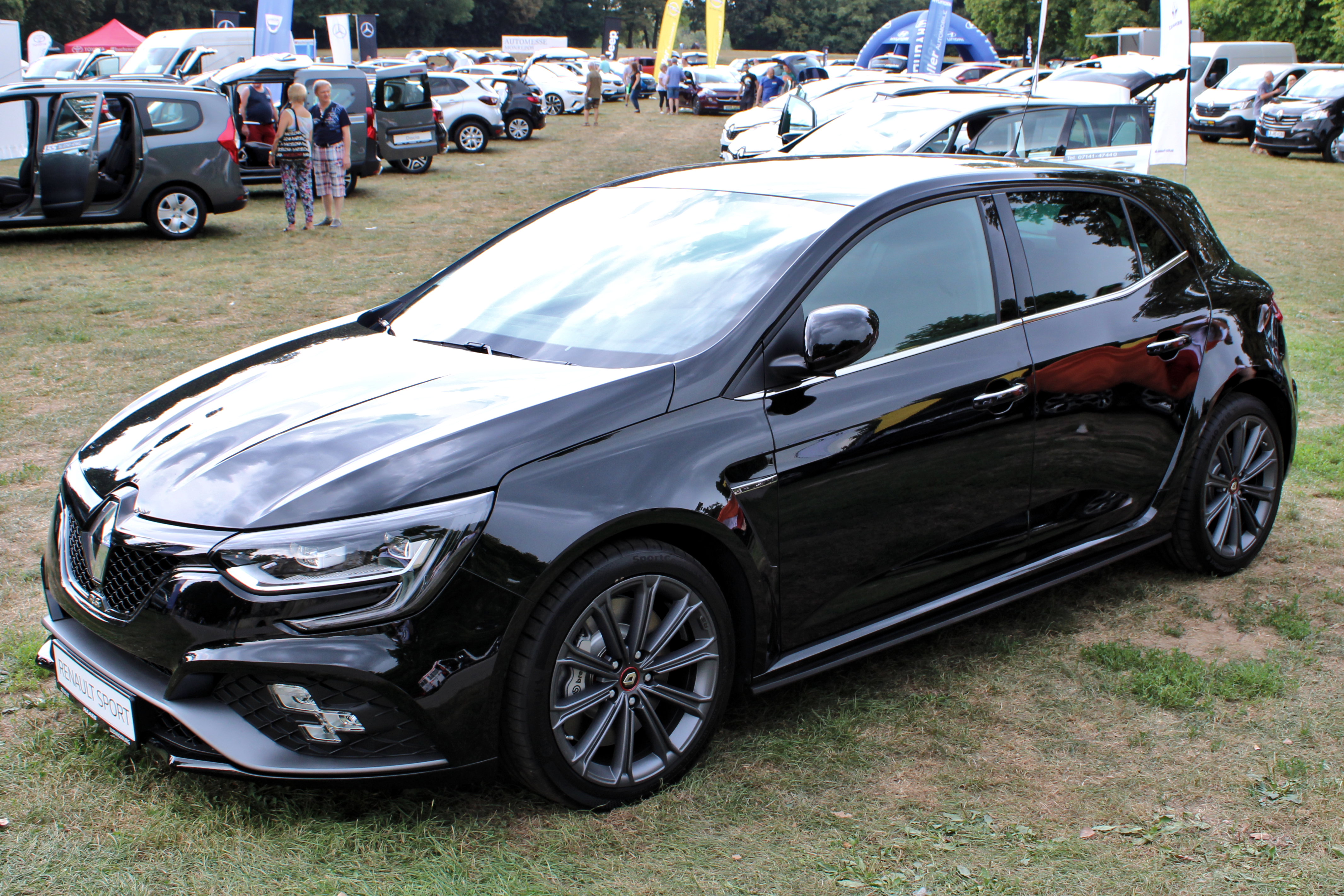 Renault Megane RS at schloss Monrepos